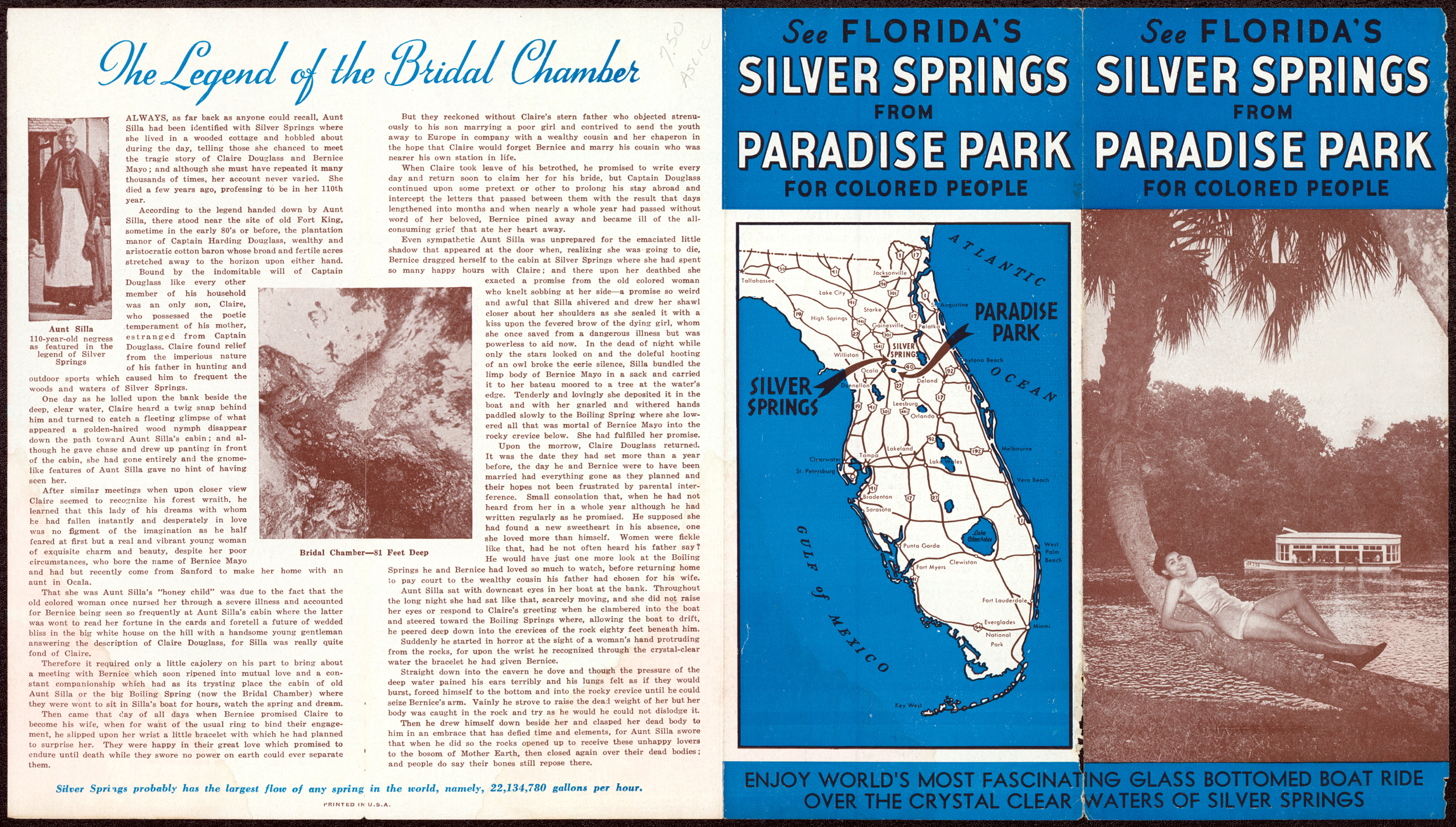 Promotional flyer for Paradise Park, Florida, a park for colored during the racial segregation period.